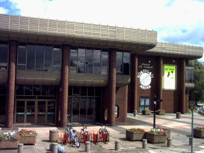 Northgate Arena